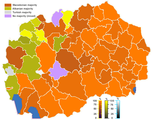 MKD muni nonn(Ethnic)